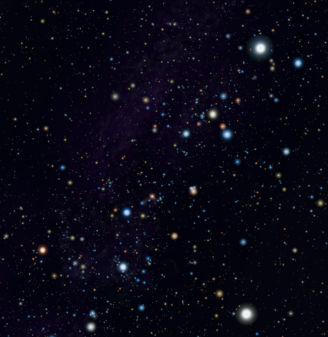 Image of Puppis